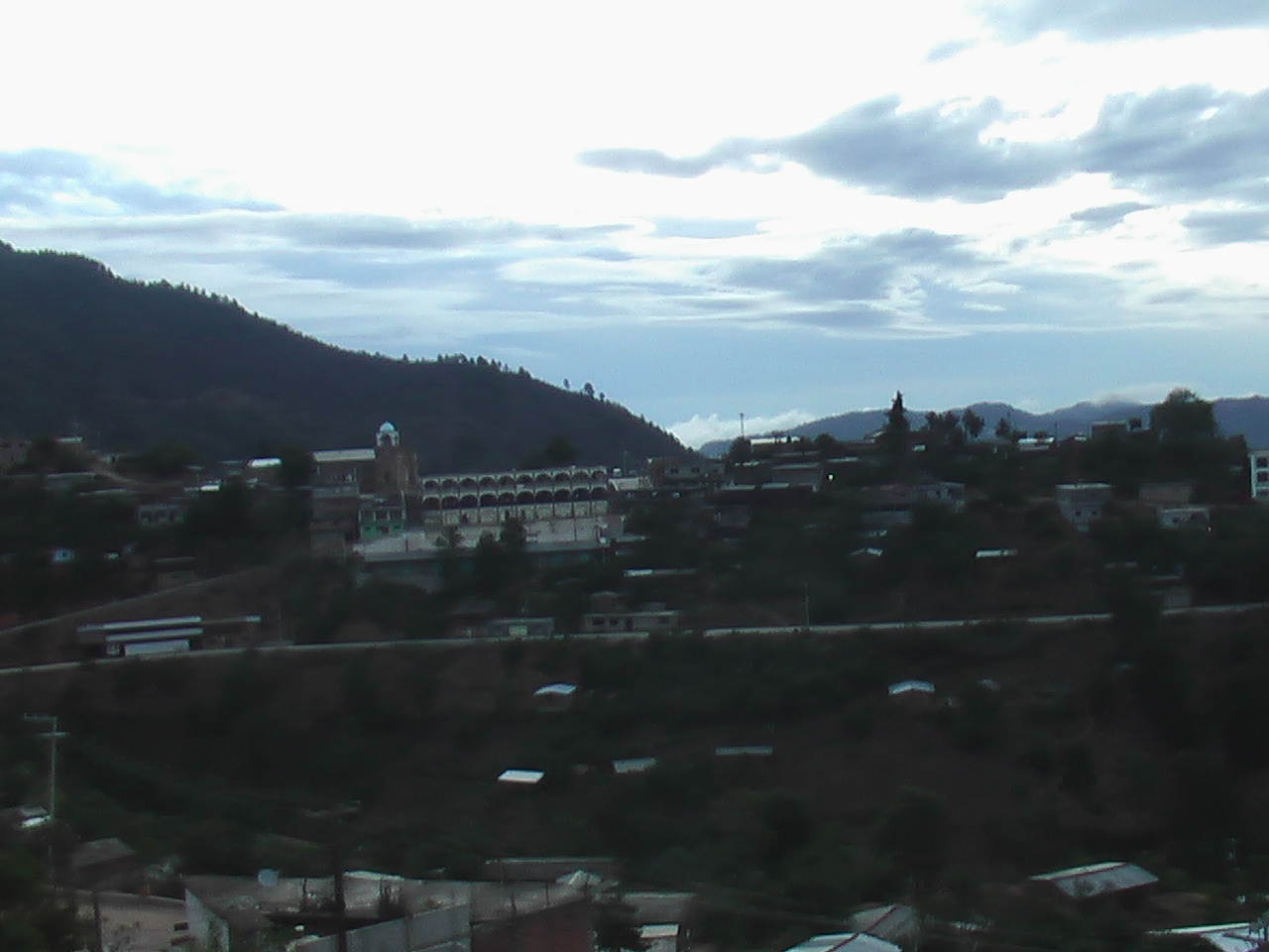 View of the village of San Juan Juquila Mixes, Oaxaca, Mexico